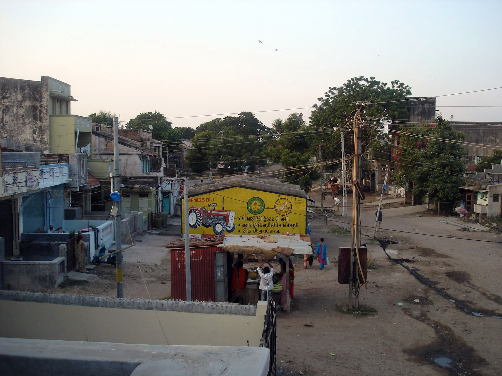 View of Sathamba village facing Vav faliya, Azad Chowk